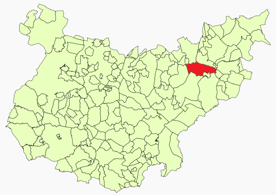 Esparragosa de Lares